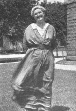 "The Woman Citizen" Mrs. Frank J. Shuler South Dakota's Citizenship Measure